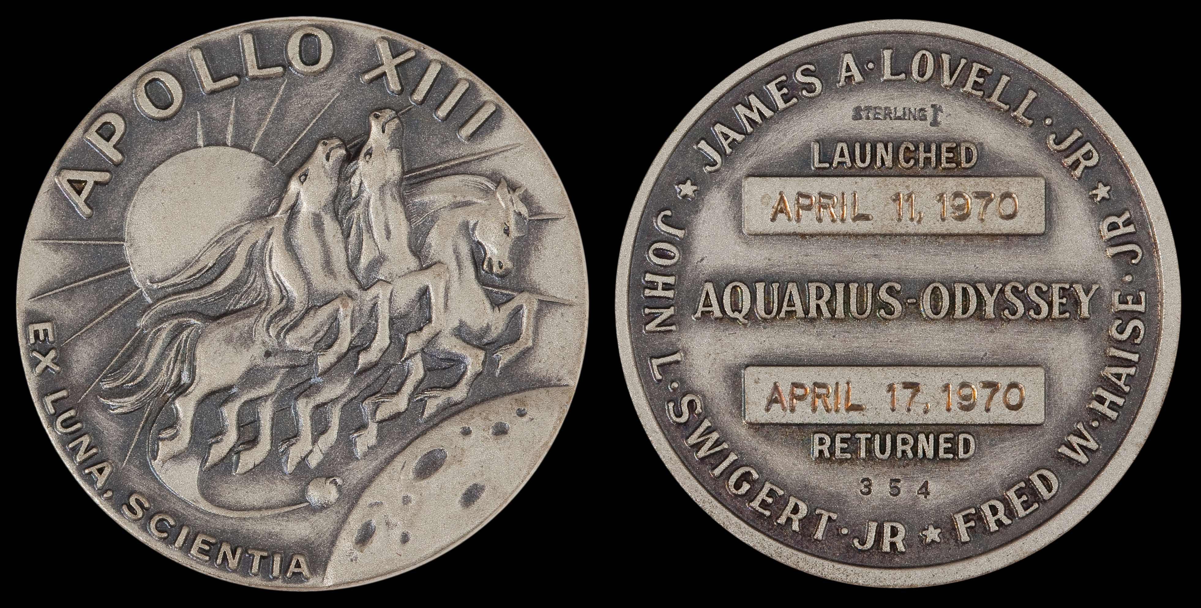 Apollo 13 (S69-60662, December 1969) Flown Silver Robbins Medallion (SN-354) from the collection of Rusty Schweickart(6075-40125)